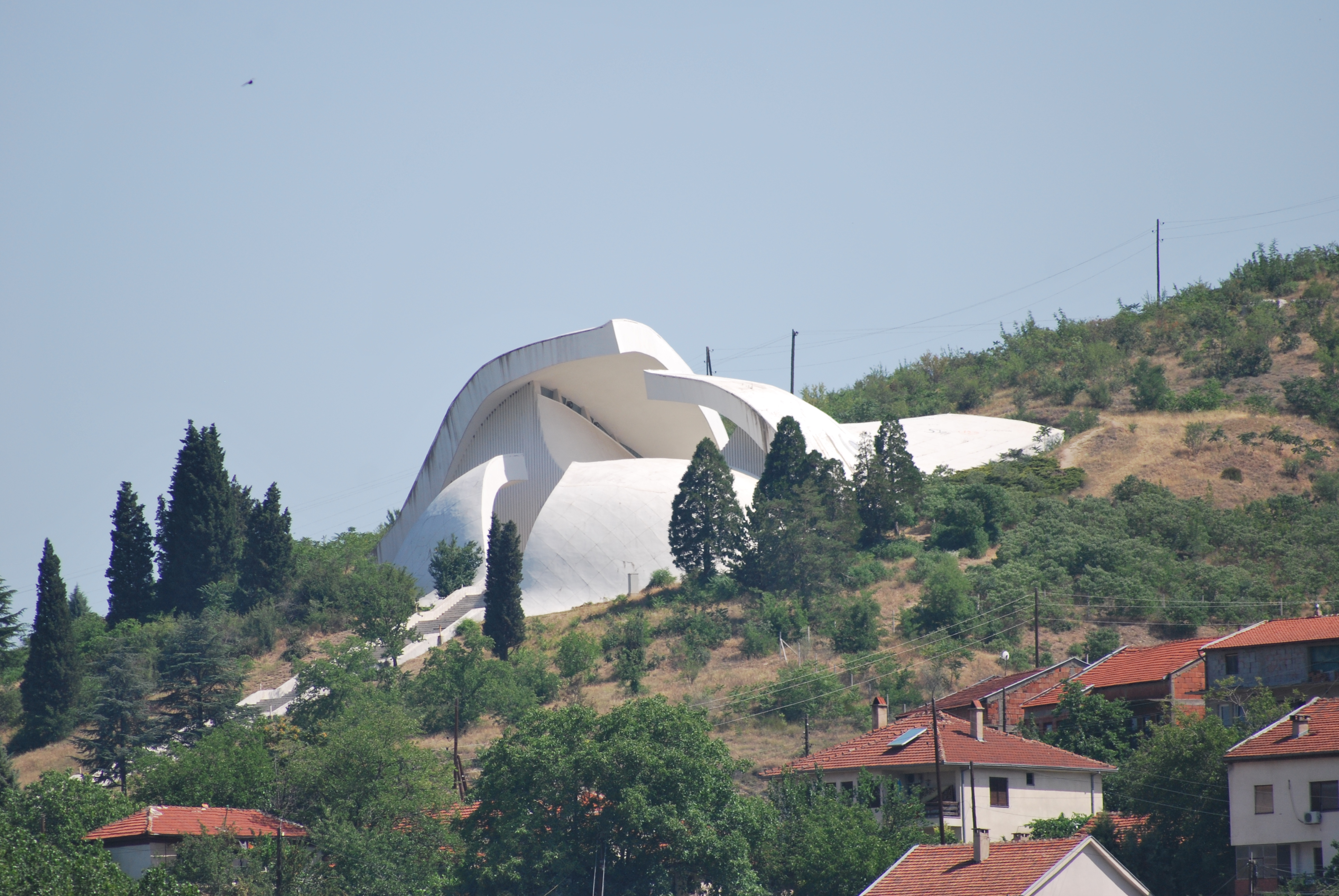 "Memorial Charnel house to the heroes of the Second World War from Veles and its district", Veles, Macedonia